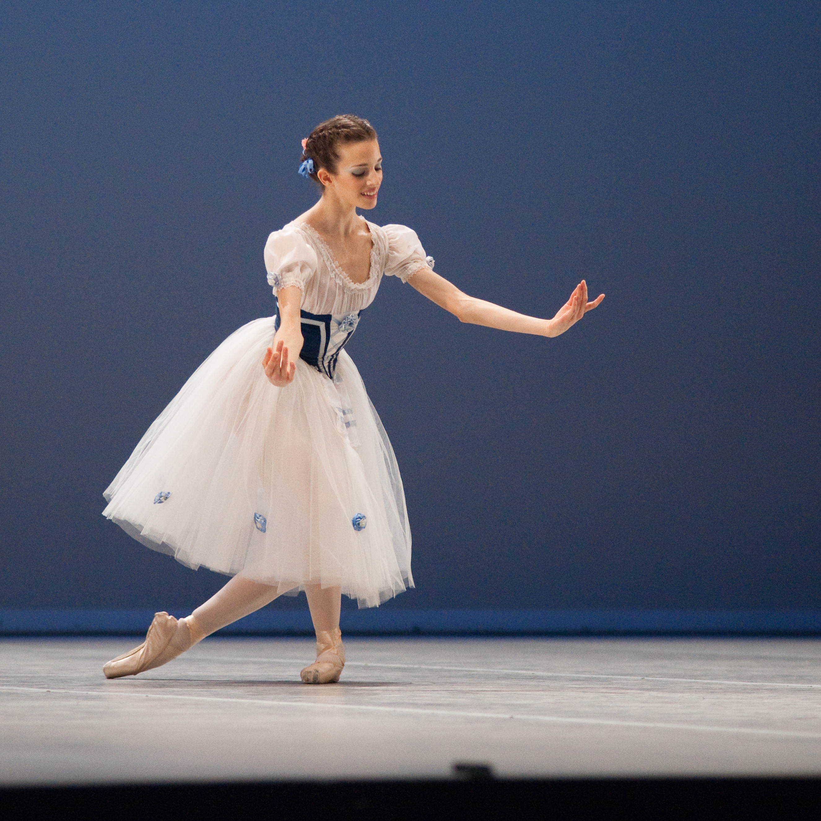 The making of this document was supported by Wikimedia CH. (Submit your project!) For all the files concerned, please see the category Supported by Wikimedia CH.